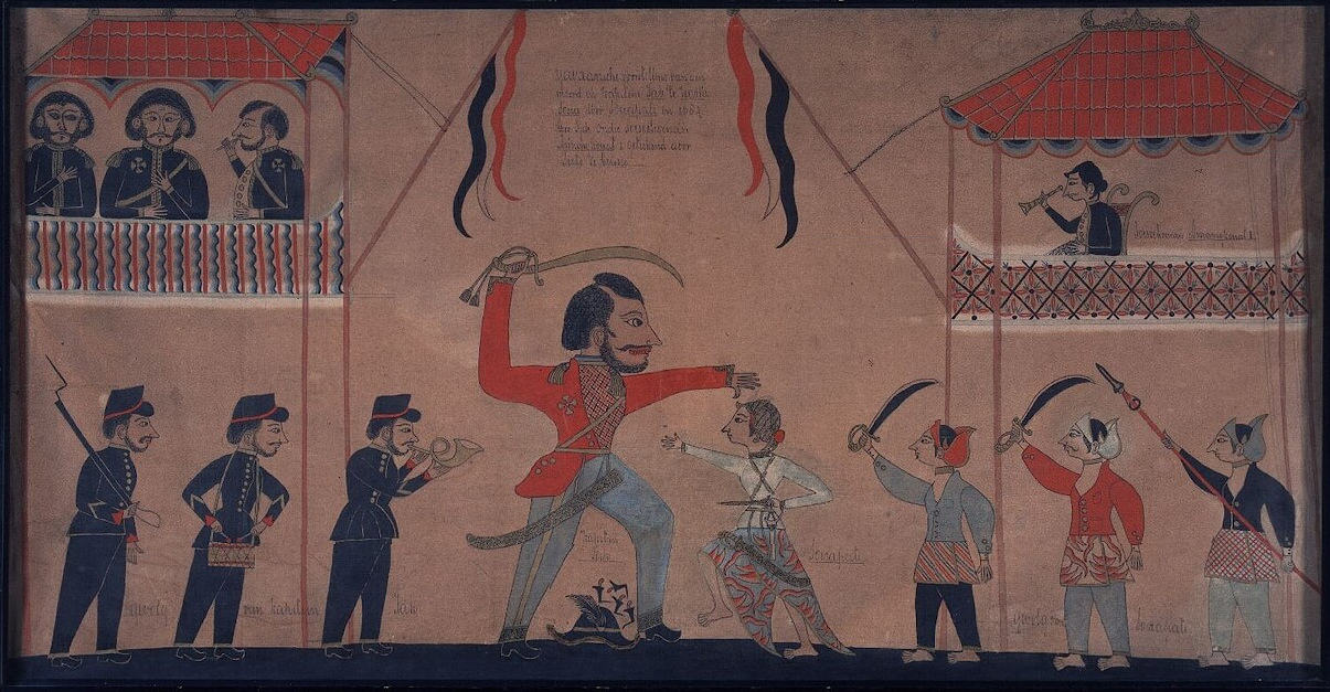 Javanese painting by Tirto of Grisek depicting Surapati killing Captain Tack in Kartasura (1684) under Susuhunan Amangkurat II